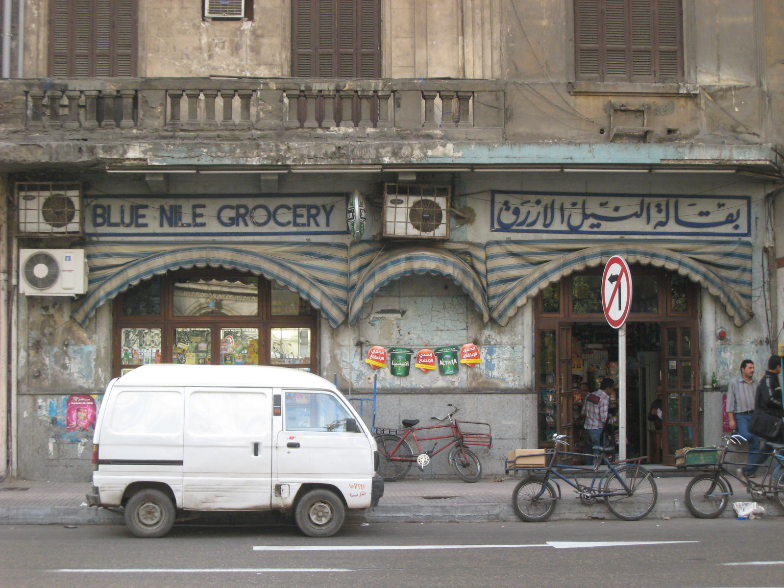 Suzuki Super-Carry in front of the Blue Nile Grocery